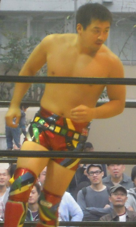 Korean professional wrestler, Ryoji Sai. Oct 2 2011 ZERO1 Yasukuni Shrine.